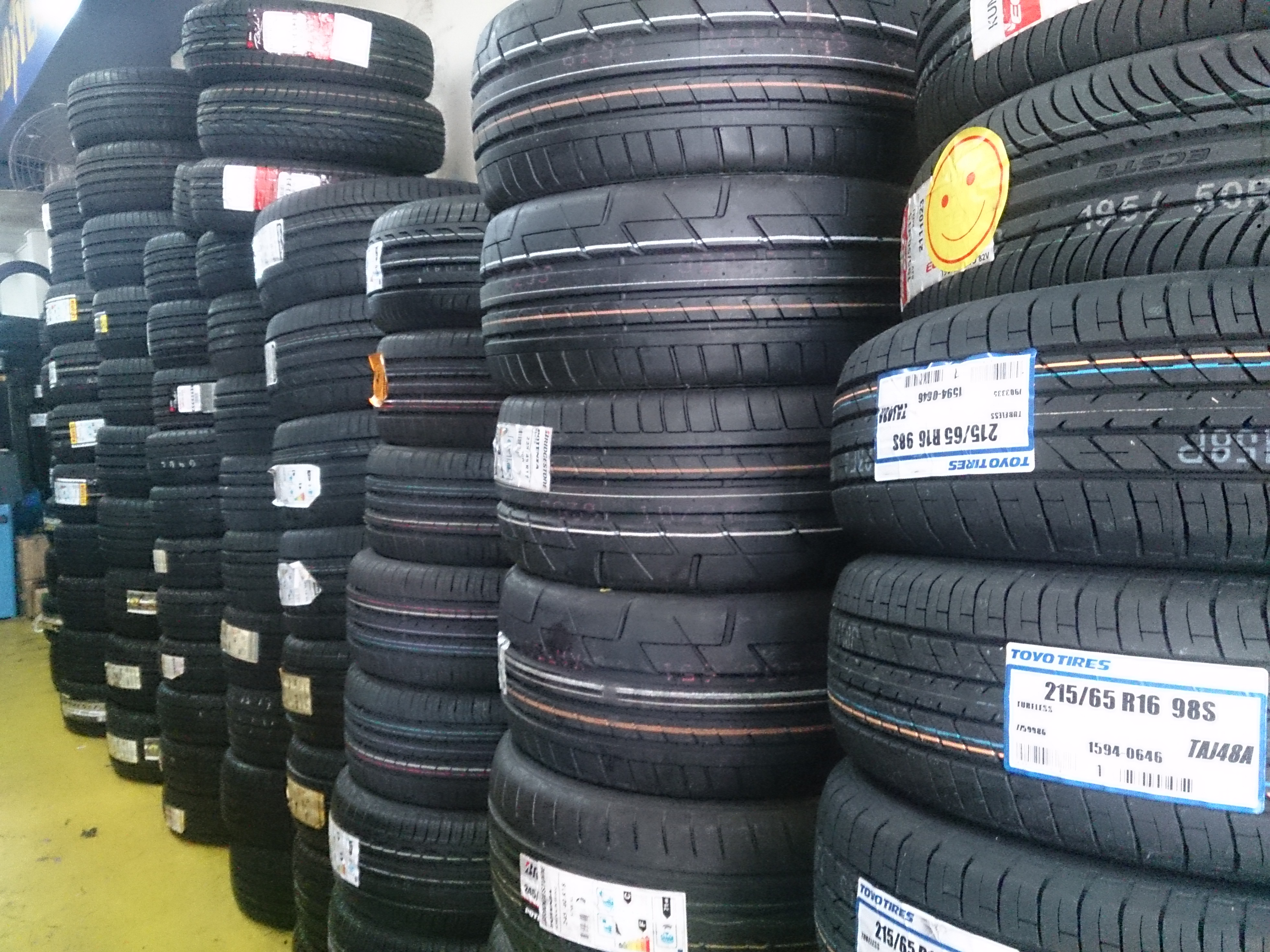 New car tyres in a tyre shop